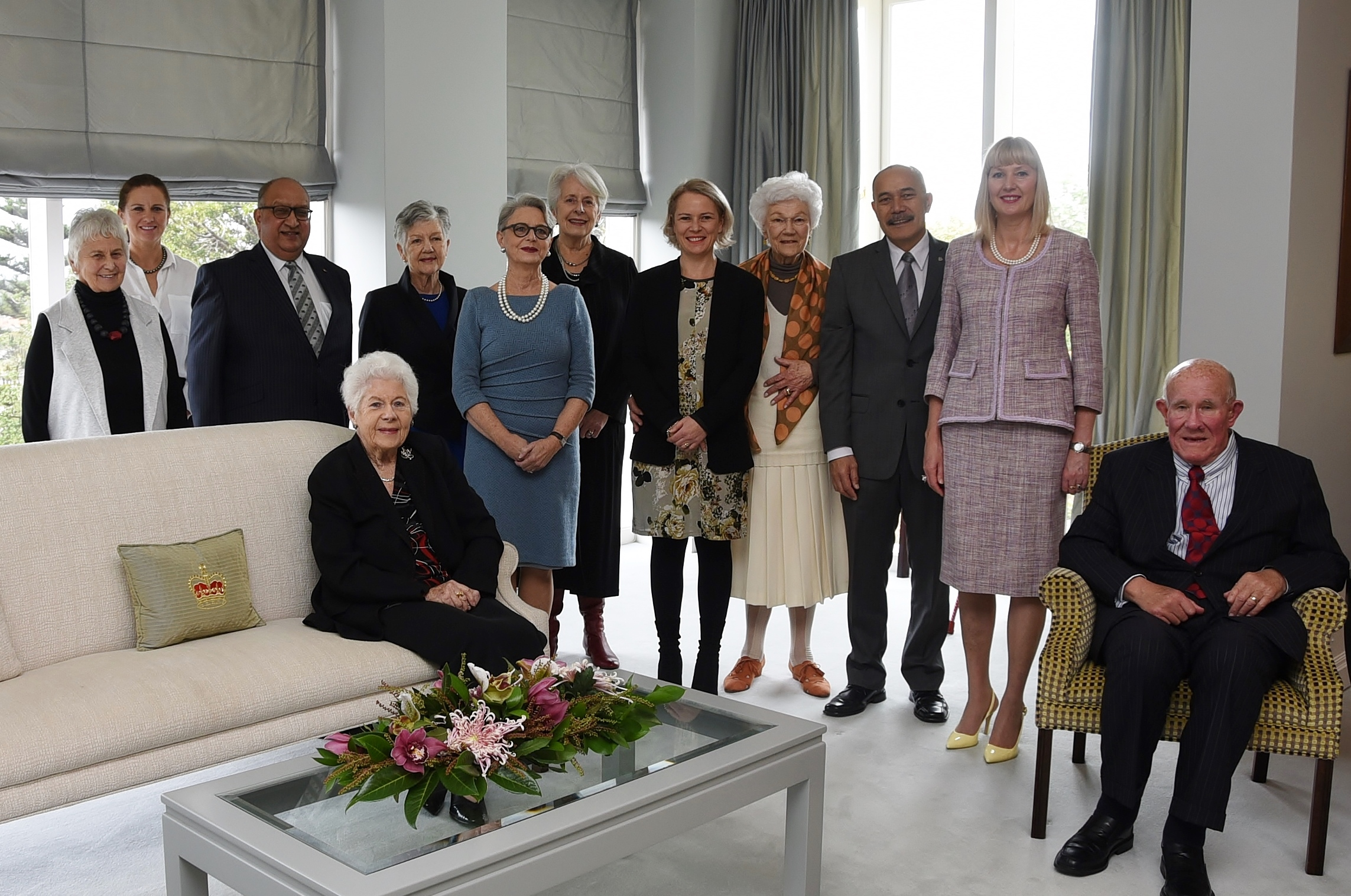 Lunch for former New Zealand governors-general, their spouses and guests, at Government House, Auckland, on 13 July 2016, hosted by Sir Jerry and Lady Mateparae. Left to right - seated Dame Cath Tizard; Peter Cartwright; back row Beverley, Lady Reeves; Bridget Jackicevich; Sir Anand Satyanand; Susan, Lady Satyanand; Anne Culpan, Dame Silvia Cartwright; Cate Slater; Norma, Lady Beattie; Sir Jerry Mateparae; Janine, Lady Mateparae